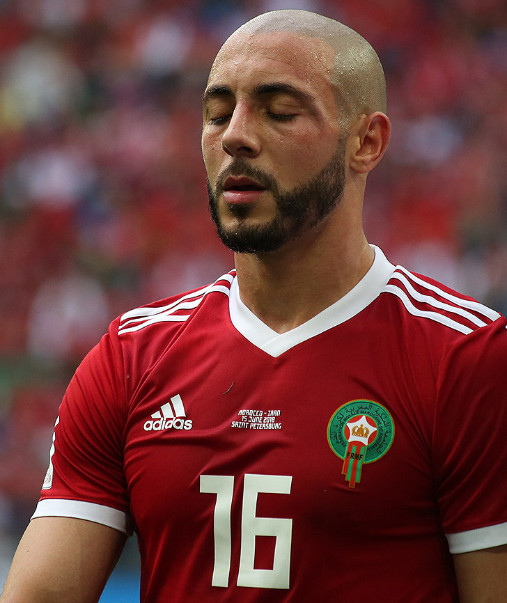 Nordin Amrabat (left) and Morocco national team doctor Abderrazak Hifti (right) Iran-Morocco match, 2018 FIFA World Cup